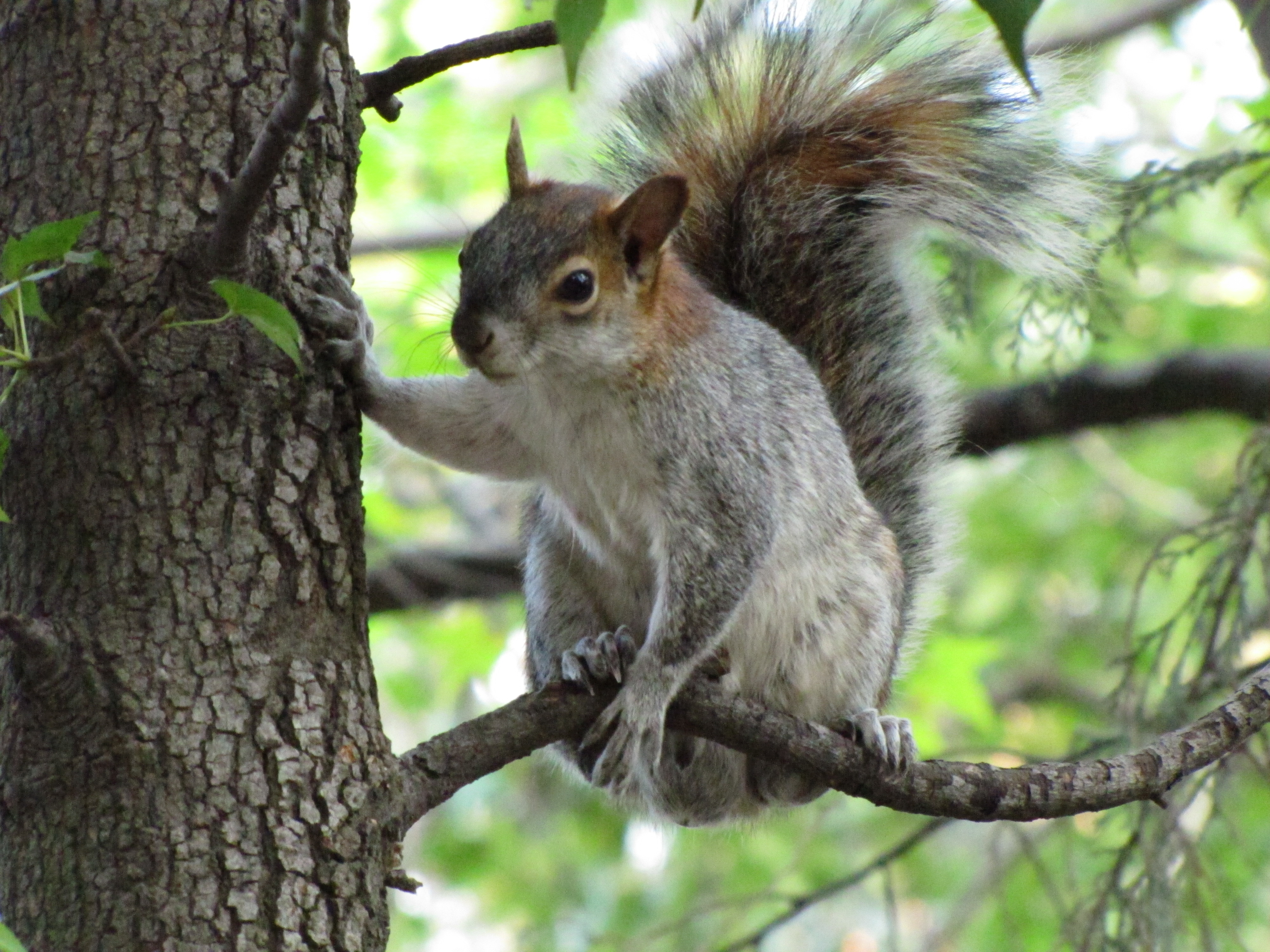 Mexican gray squirrel (Sciurus aureogaster) on branch.